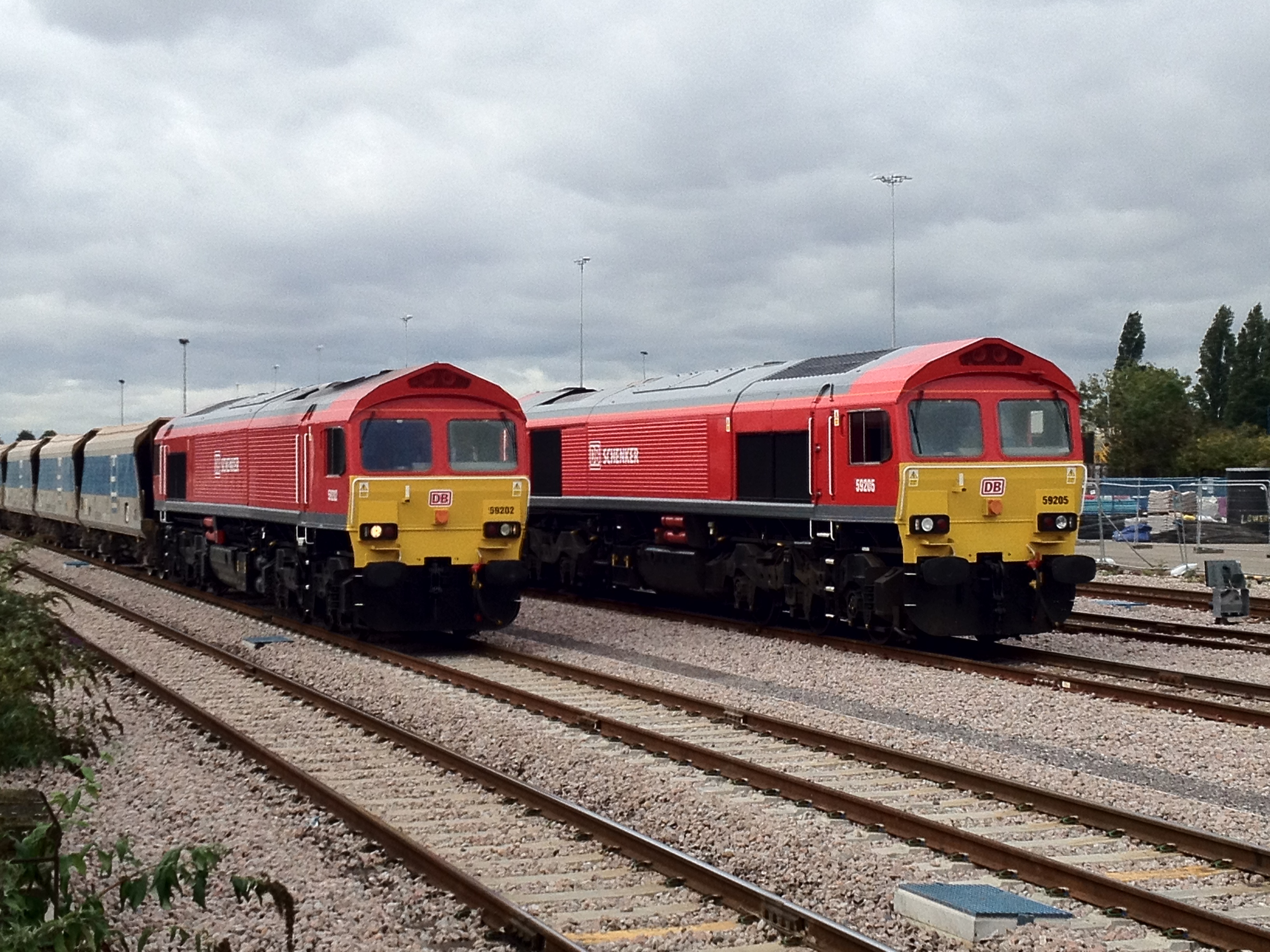 British Rail class 59 locomotives 59 202 and 59 205 in the freight sidings adjacent to Acton Main Line railway station, London. The locomotives are in DB Schenker livery.